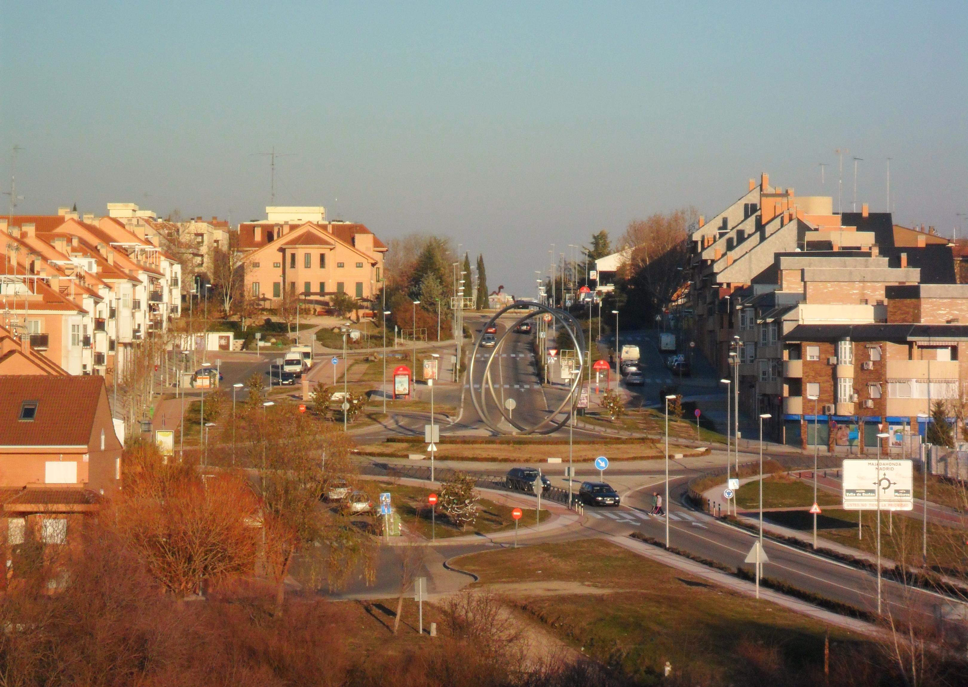 View of Villanueva del Pardillo.